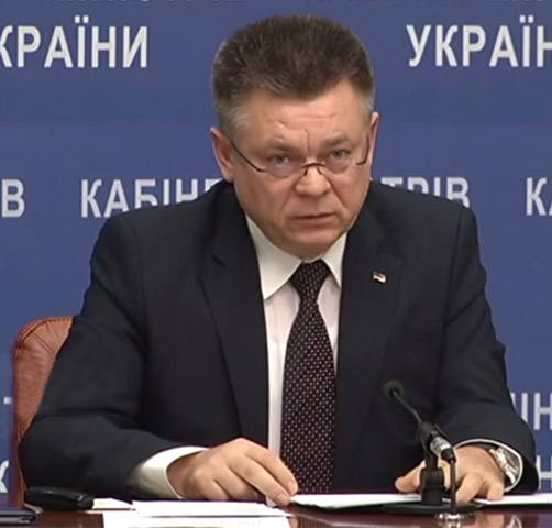 Pavlo Lebedyev, Ukrainian politician, Minister of Defence of Ukraine